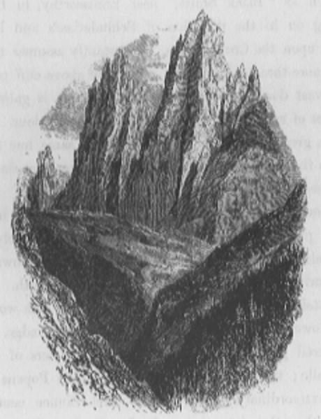 Three Peaks from Landro